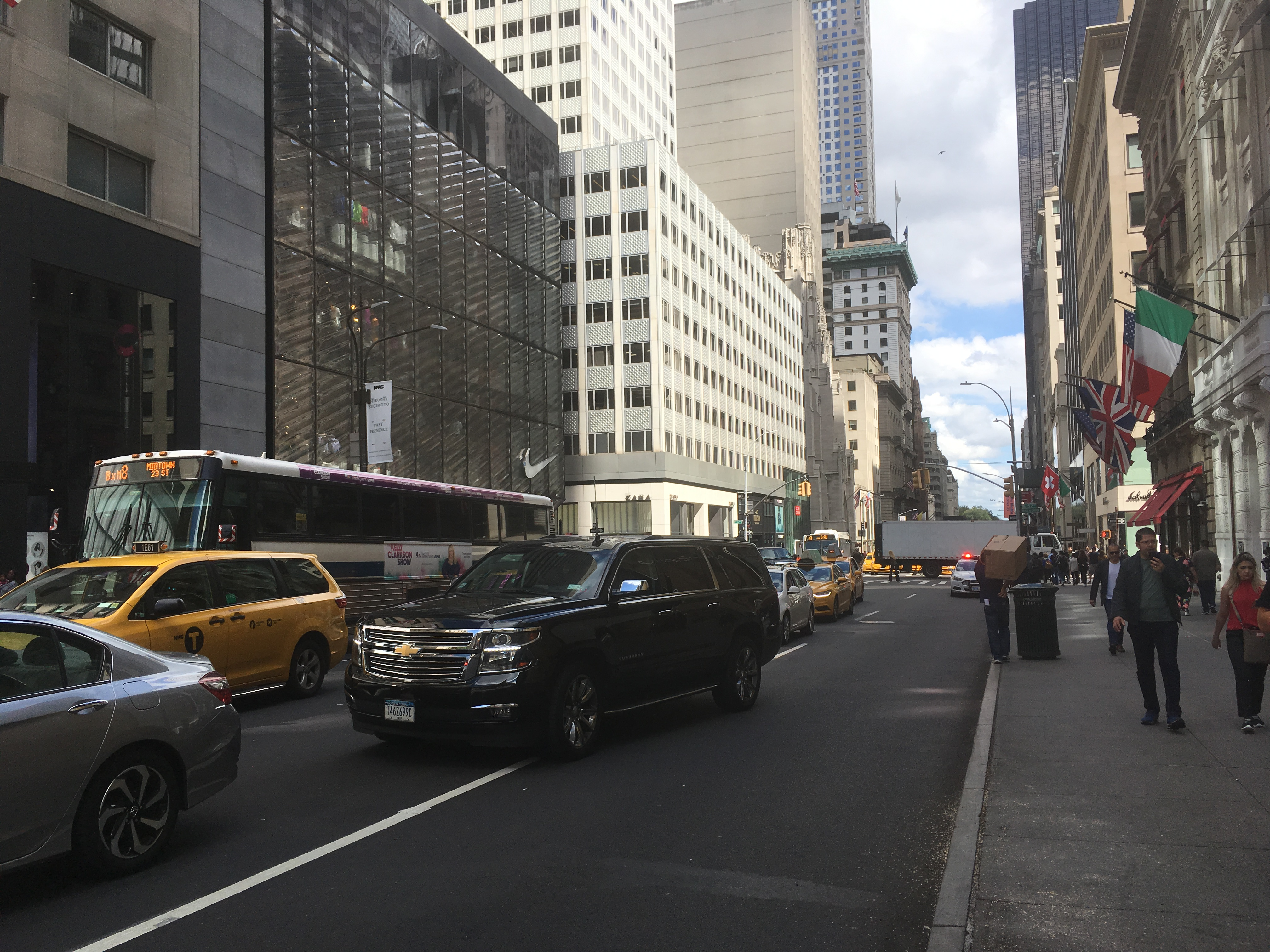 A view of Fifth Avenue looking north from 51st Street in Manhattan, New York City